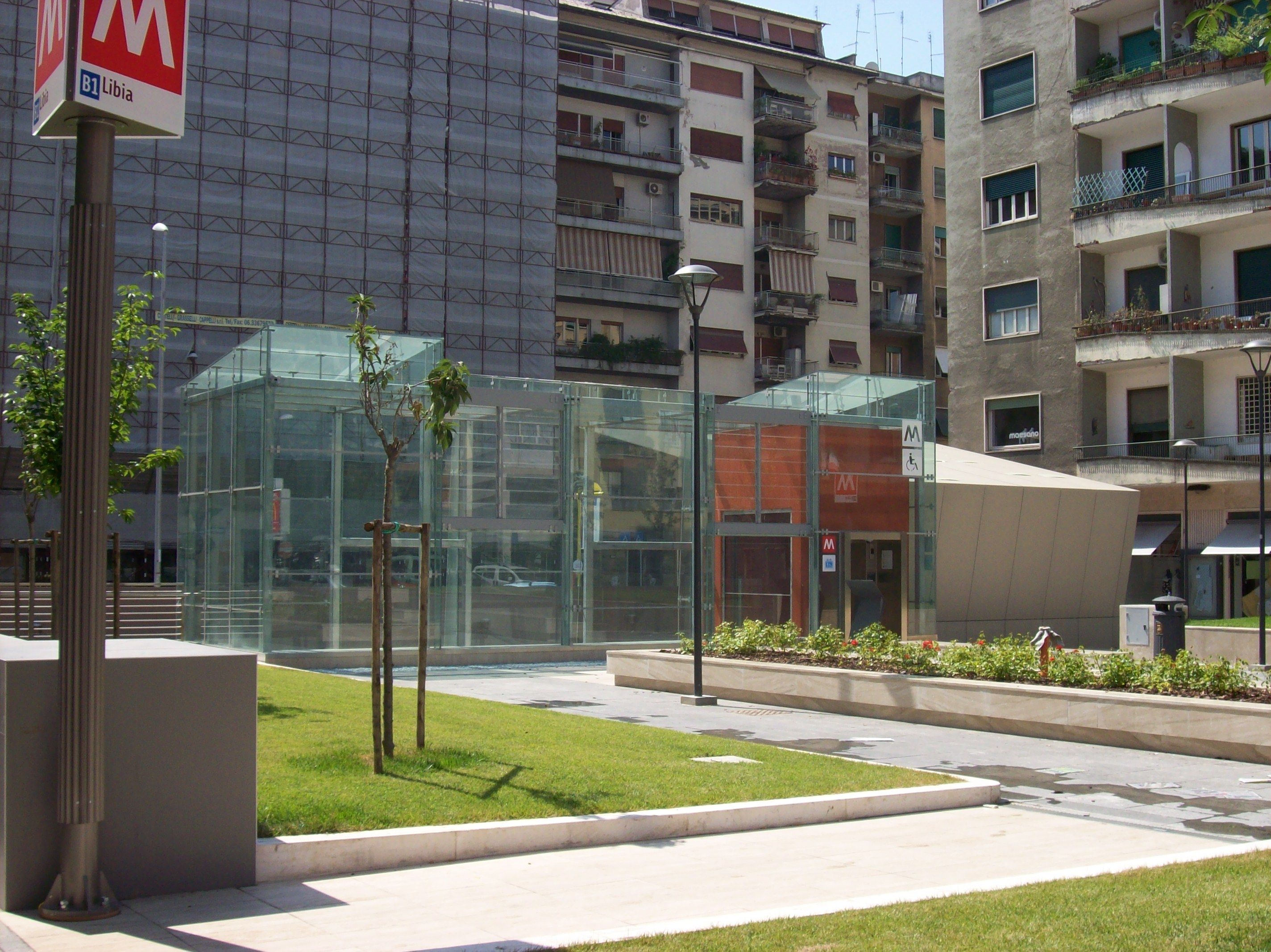 Rome Metro B1 station Libia